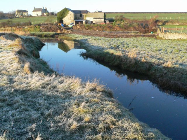 Afon Ffraw & Cellar Mill. Looking towards Cellar Mill from the banks of the Afon Ffraw, Cellar Farm stands in the background.